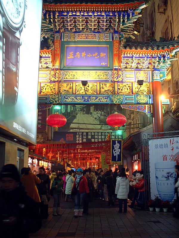 Nightmarkets at Wangfujing